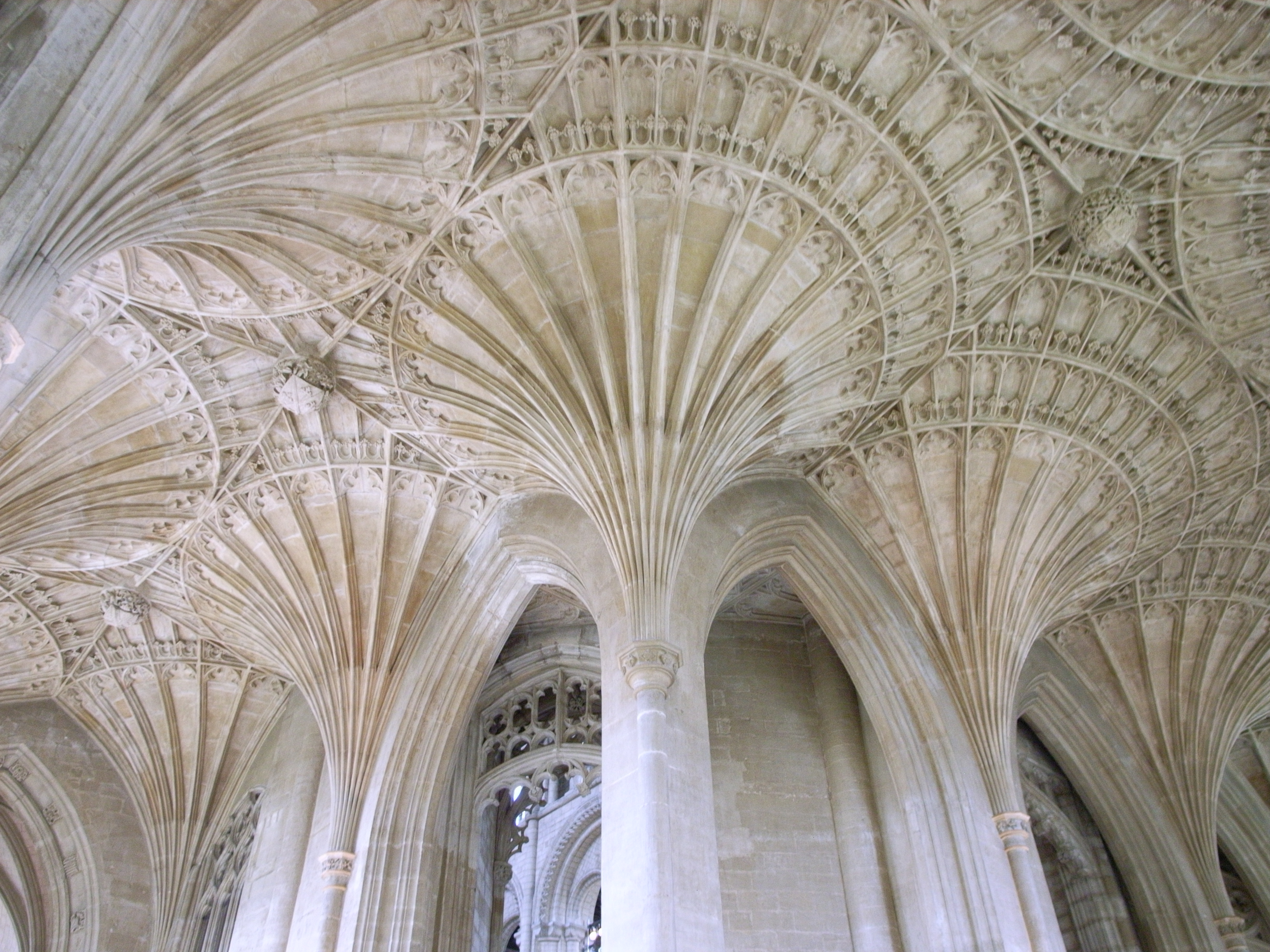 Peterborough Cathedral - fan vaulting in the "new building"